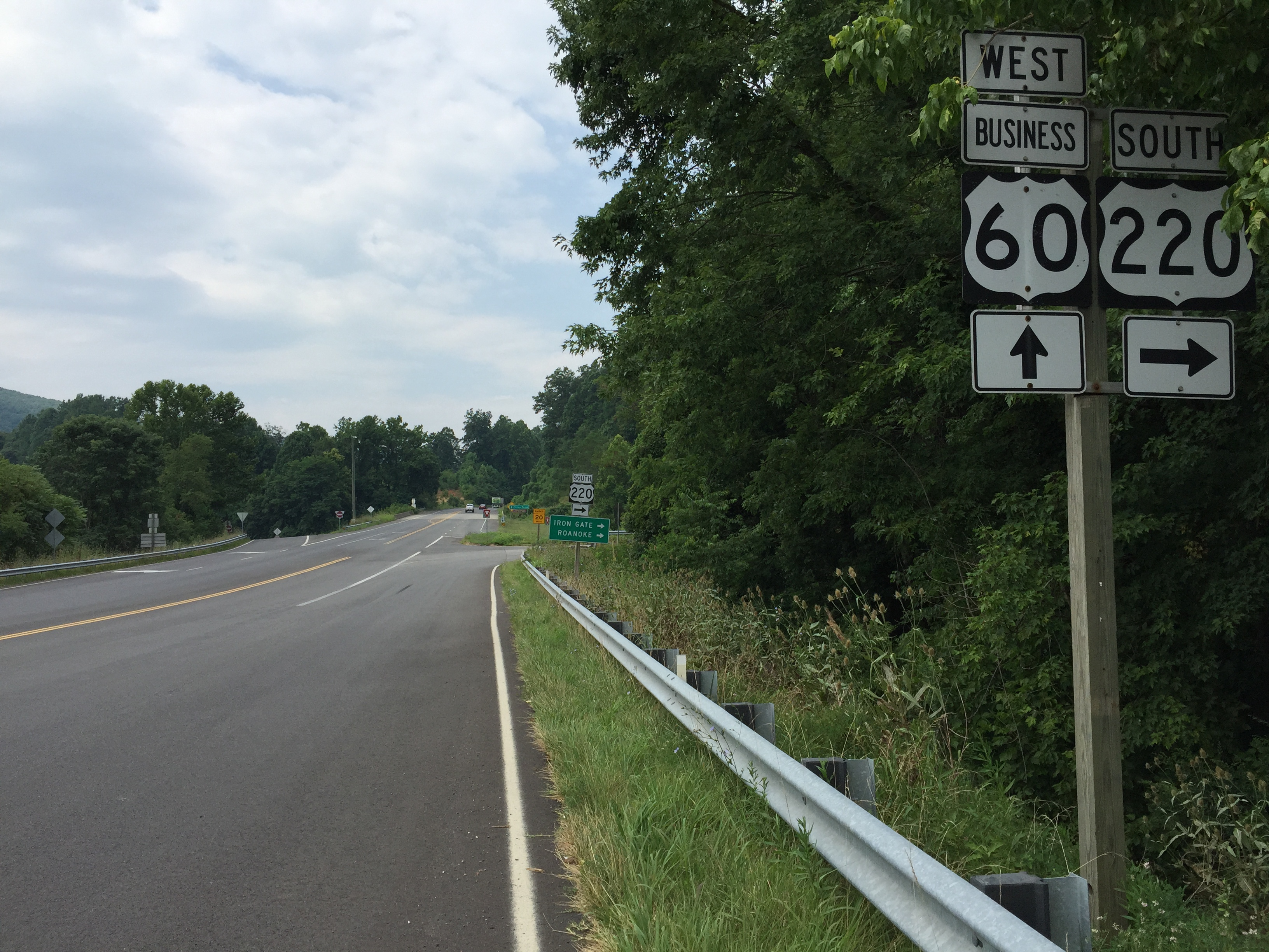 View west along U.S. Route 60 Business (Grafton Street) at U.S. Route 220 (Market Avenue) in Cliftondale Park, Alleghany County, Virginia